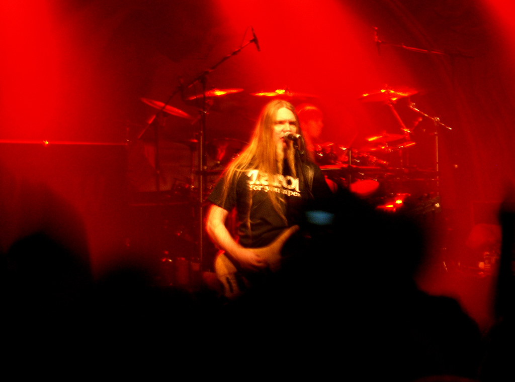 Nightwish at Academy 1 in Birmingham (Marco)